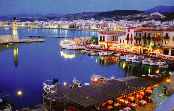 Rethymnon, Crete, Greece: Harbour at night